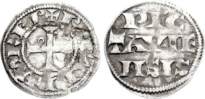 Anglo-Gallic. Poitou Richard Lionheart (as count of Poitiers). 1199-1216. AR Denier (0.75 g, 5h). Melle (Poitou) mint. +RICARDVS REX, cross pattée; annulet in 1st quarter PIC/TAVIE/NSIS in three lines across field. Elias 8a; Poey d’Avant 2540. VF, lightly toned, delamination on obverse.